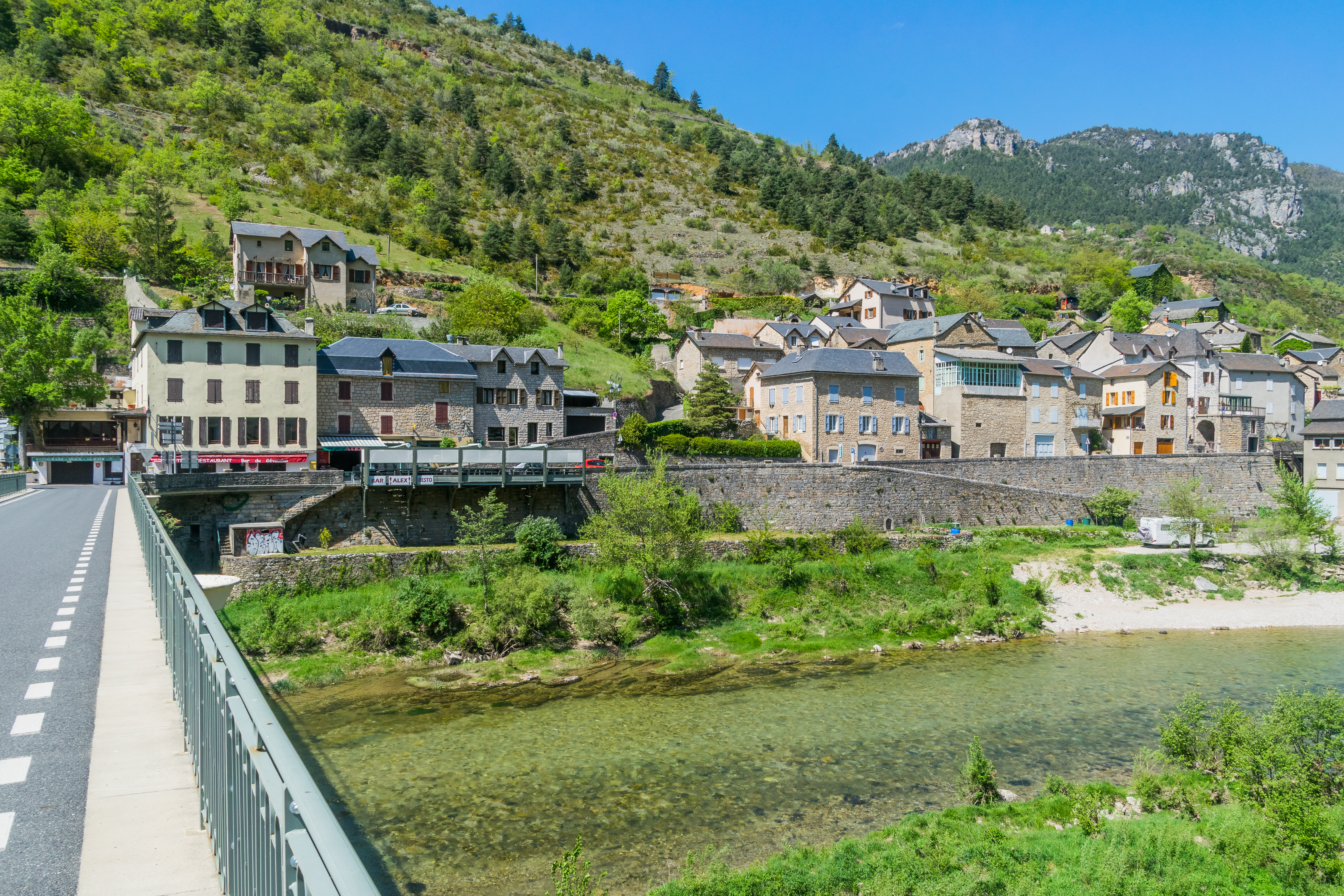 Tarn River in Les Vignes, Lozère, France